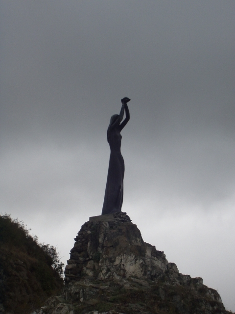 Once there were two young lovers who lived on the banks of Sevan, their families didn't approve of their love so the young boy would swim every evening to meet his lady love, while she guided the way with a lamp. One day he drowned. She still holds the lamp for him everyday, hoping eternally